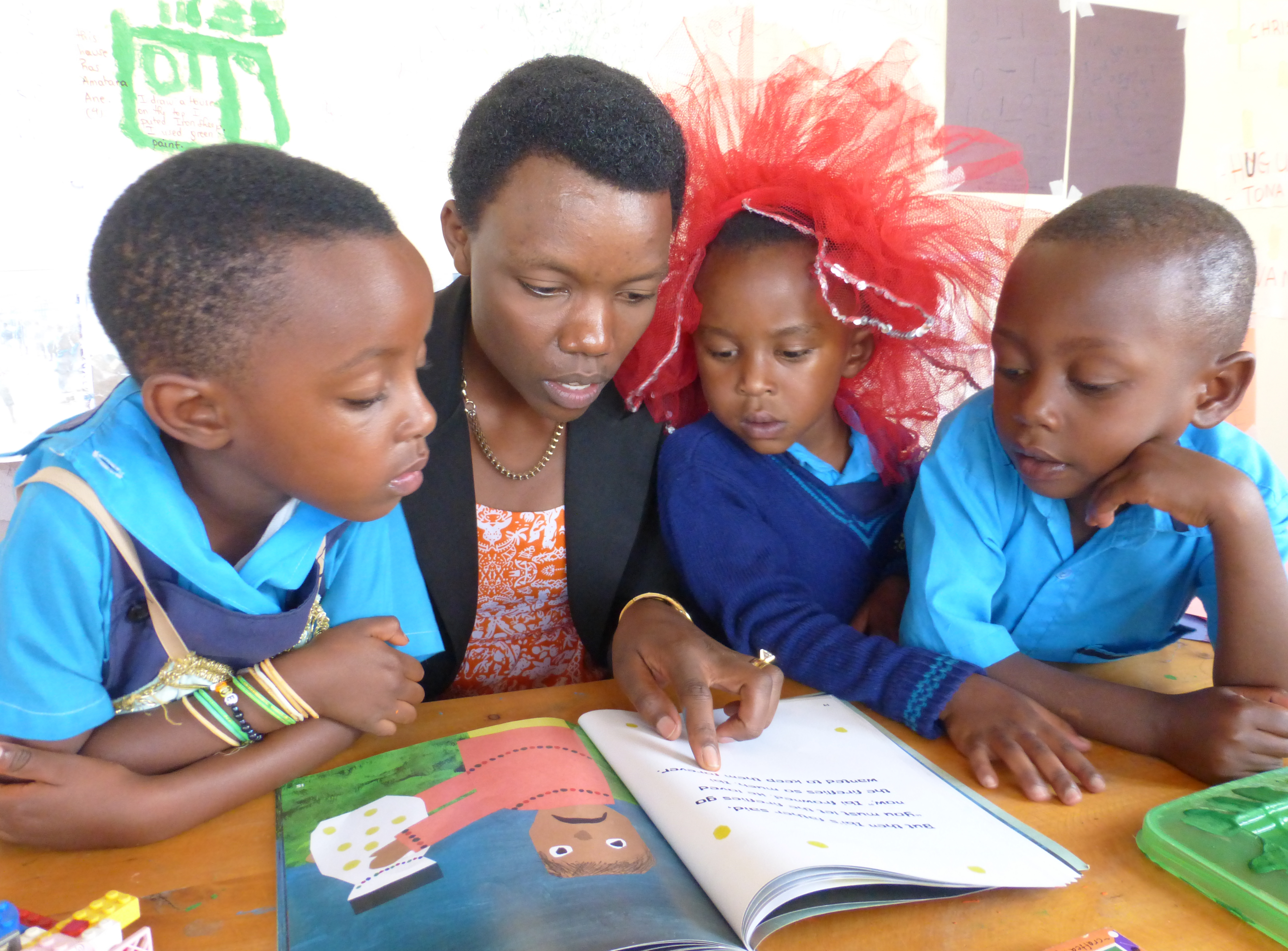 Reading begins early, when children fall in love with picture books. Play is the medium. This is an image with the theme "Play" from: Rwanda